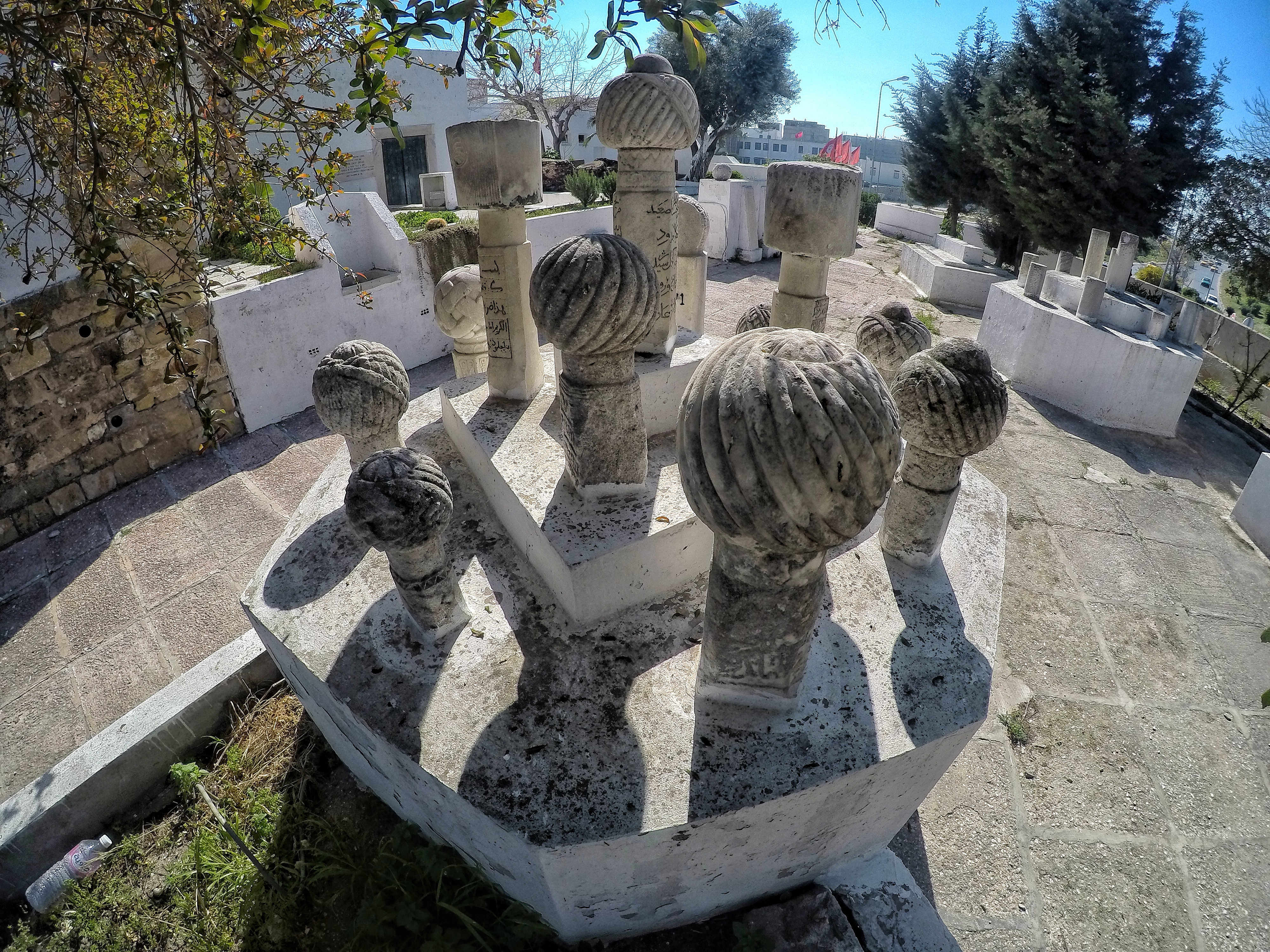 tombes